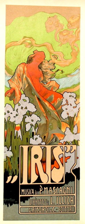 Poster for the premiere of Pietro Mascagni's opera, Iris, first published by Ricordi, Milan, in 1898. Republished in 1899 by L'Imprimerie Chaix, Paris, in Les Maitres de l'Affiche (Plate 180)